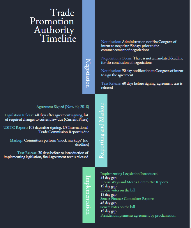 This image moves through the 3 phases of the trade deal, negotiation, reporting, and implementation. It traces the specific events within those groups and contextualizes some of those events with current progress in the USMCA ratification process.